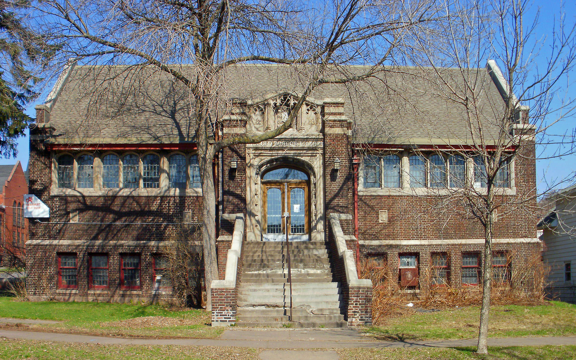 Southeast face of the NRHP-listed Lincoln Branch Library in Duluth, Minnesota.